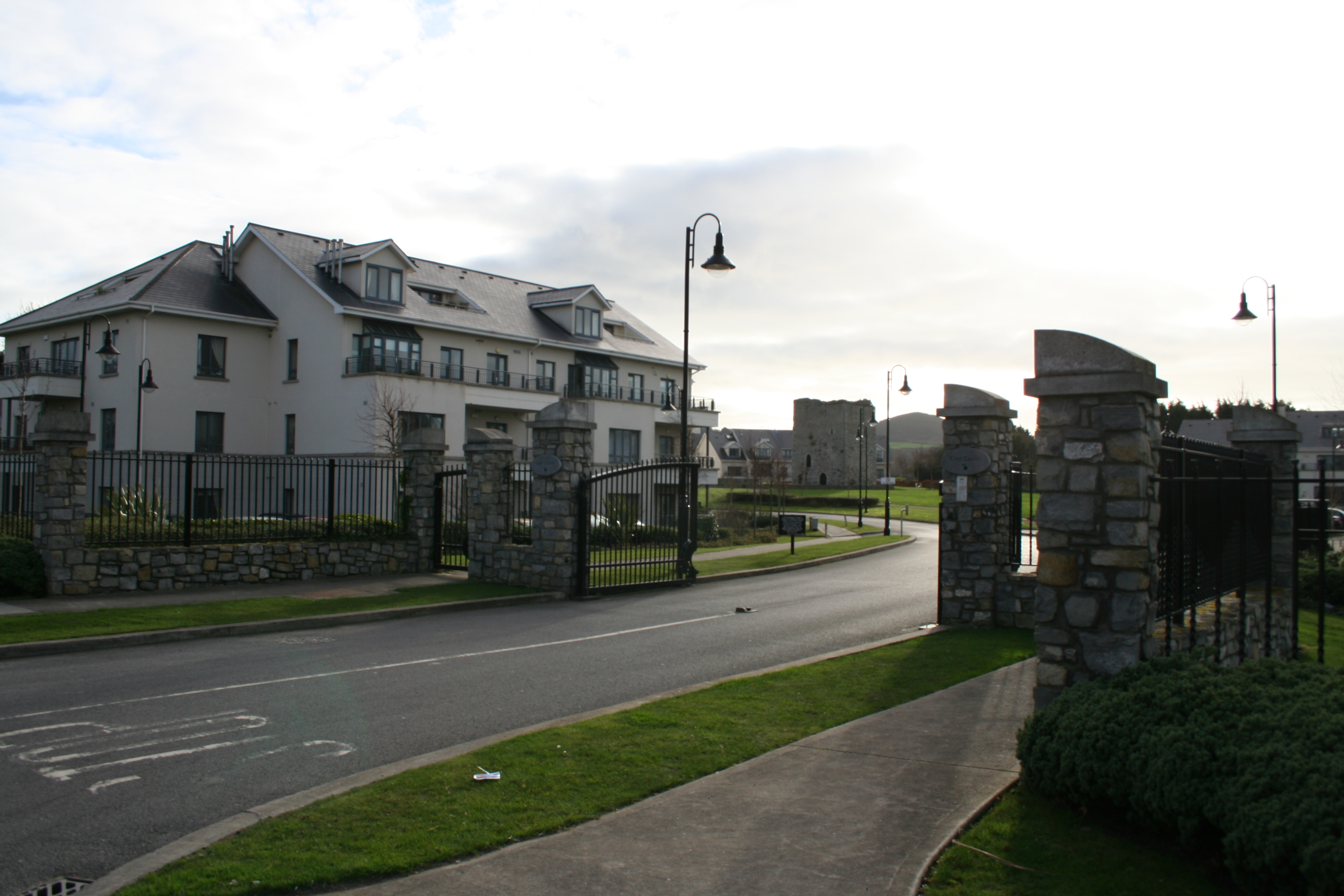 Corr Castle, Sutton, Dublin 13